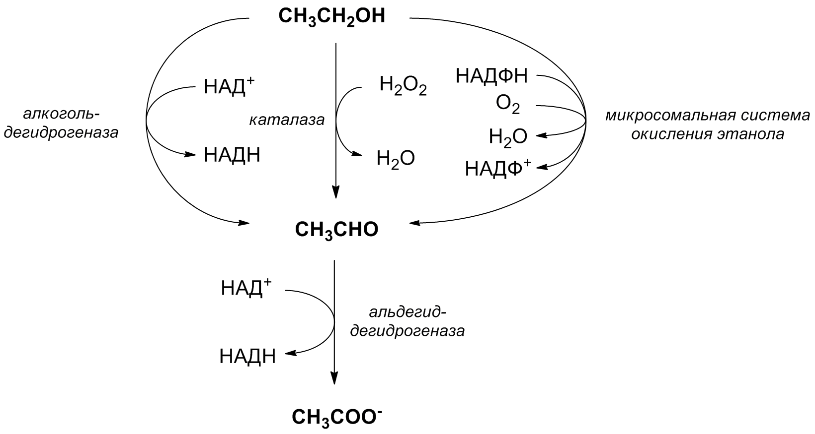 Ethanol metabolism according to